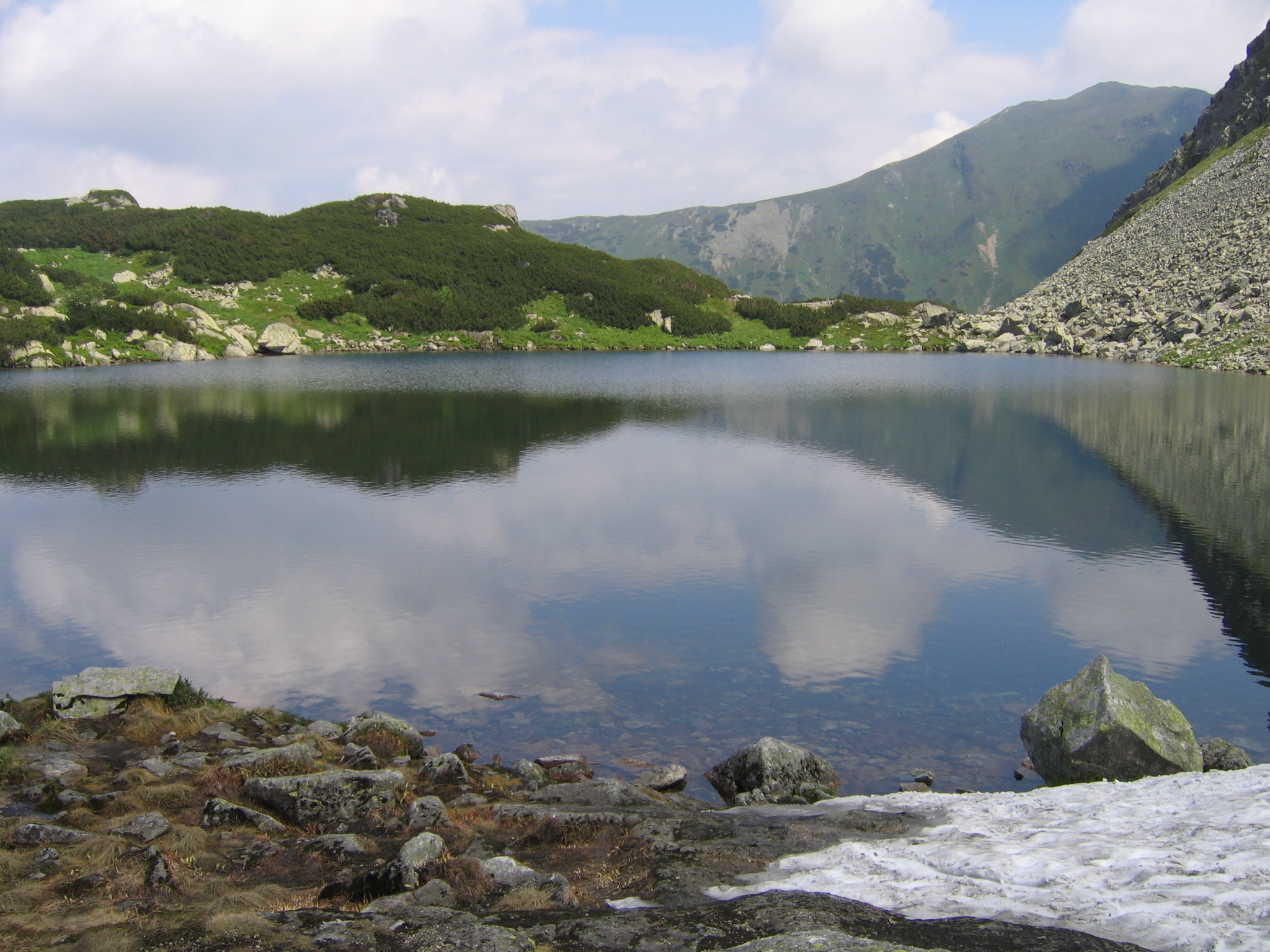 Rohace lake (Western Tatras)